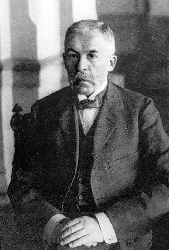 Durnovo Petr Nikolaevitsch (1842-1915) - Ministr of Russia